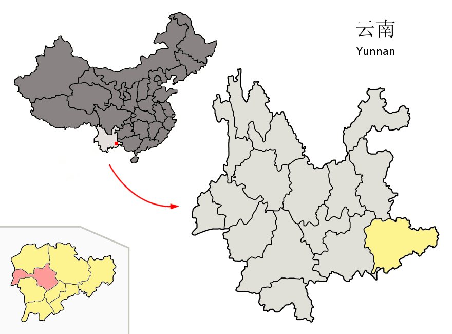 Location of Yanshan County (pink) and Wenshan Prefecture (yellow) within Yunnan province of China Map drawn in october 2007 using various sources, mainly : Yunnan province administrative regions GIS data: 1:1M, County level, 1990 Yunnan Counties map from